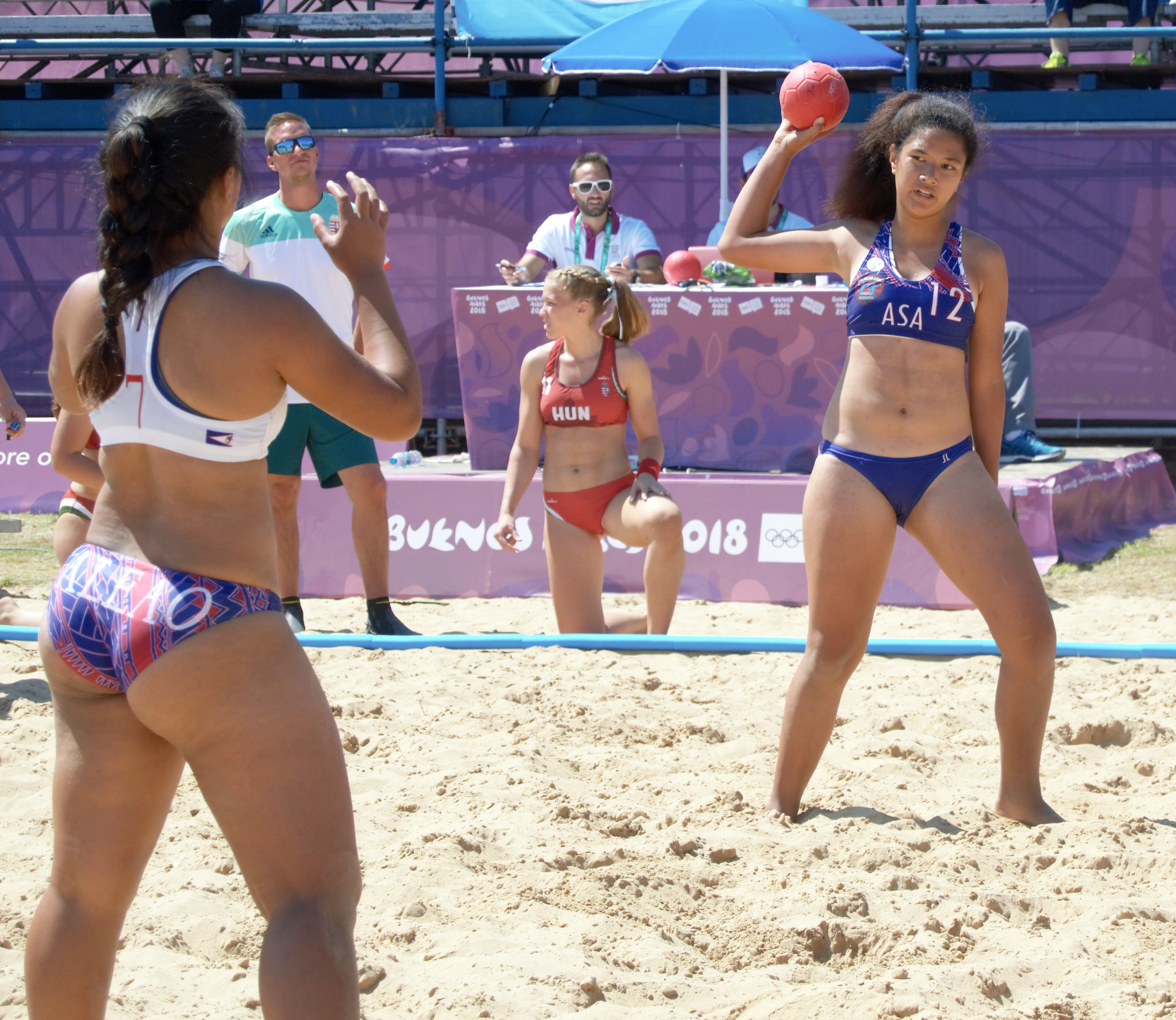 Beach handball match between American Samoa and Hungary at the 2018 Summer Youth Olympics.